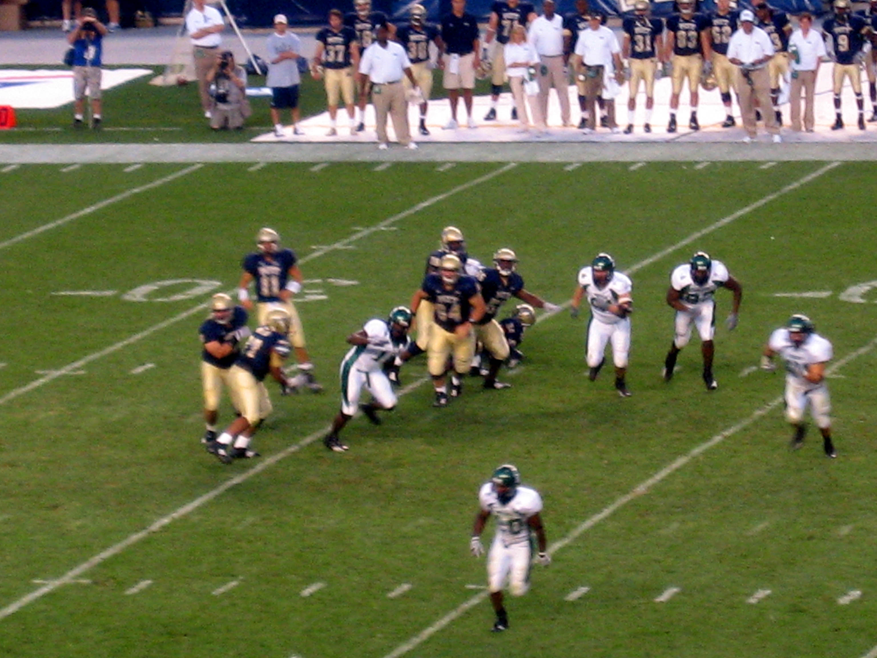 Pitt vs Eastern Michigan (Pitt wins, but #11 Stull's out with a thumb injury)